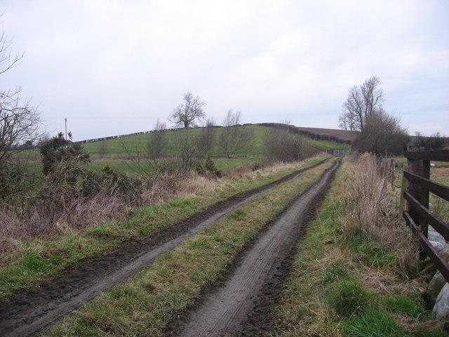 Lane to Wildgoose Lodge, Reaghstown The site of Wildgoose Lodge, to the right of the tree on the top of the small hill, viewed from the lane leading from Reaghstown village.